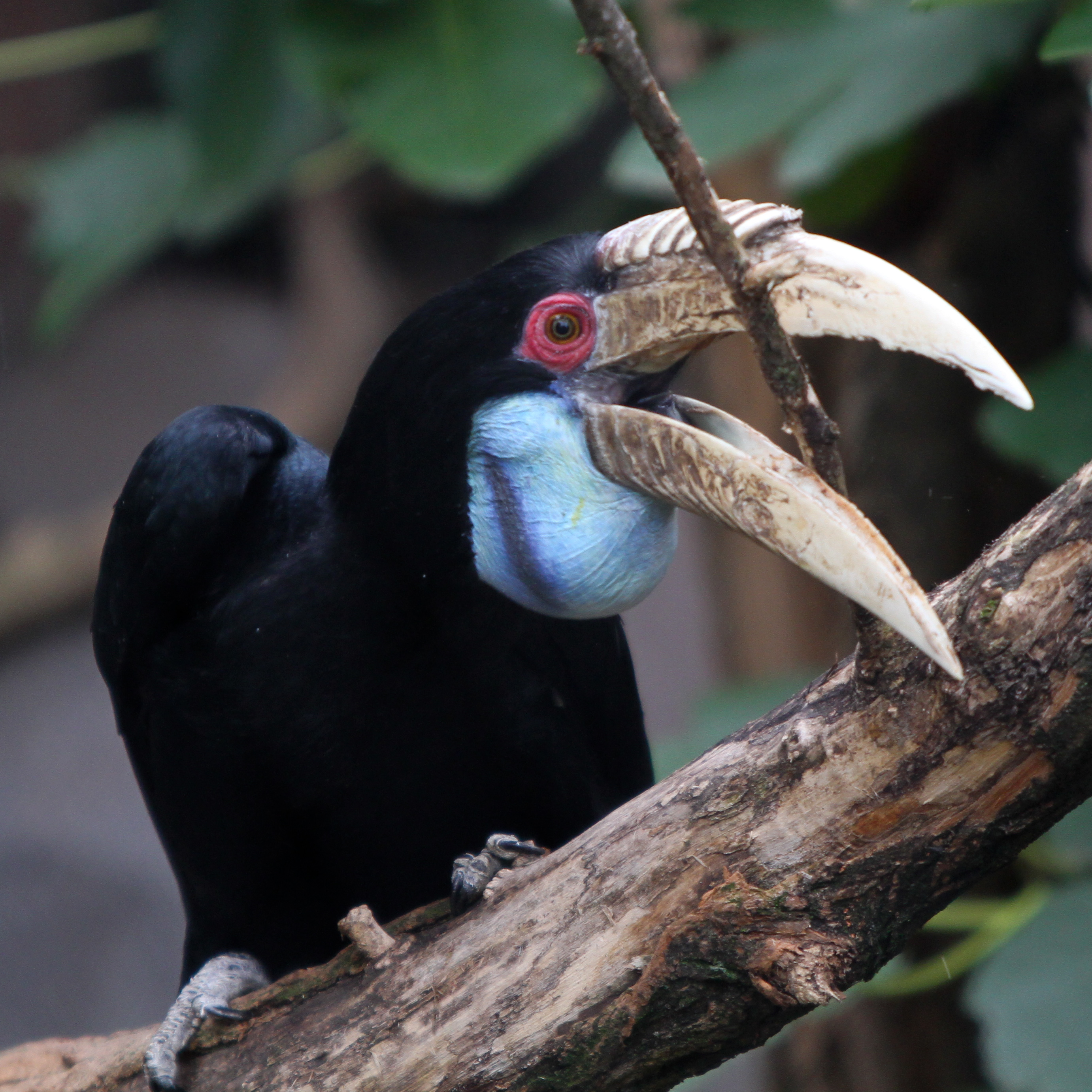 A female Wreathed Hornbill at Ouwehands Dierenpark.